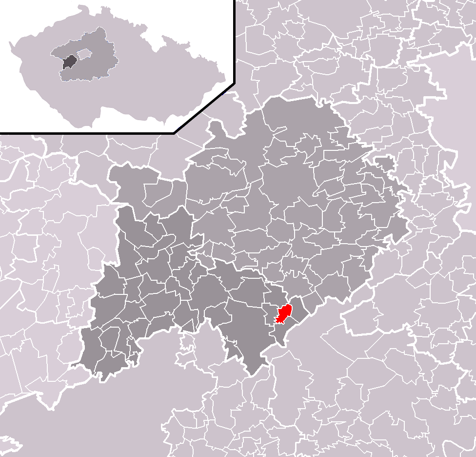 Location of Osov municipality within Beroun District and administrative area of Hořovice as a Municipality with Extended Competence.